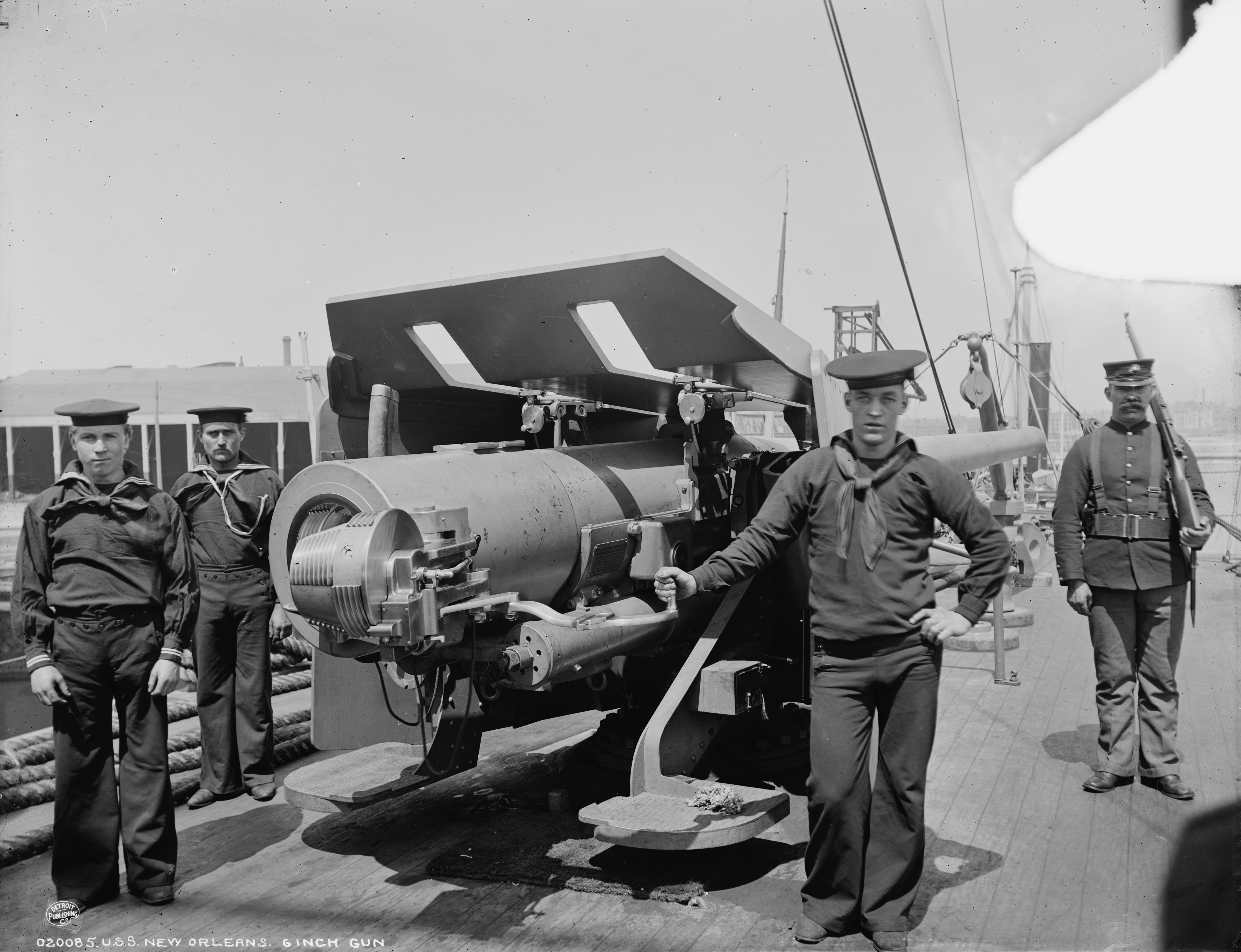 6 inch gun on cruiser USS New Orleans. This is a non-standard gun in US Navy service : an Elswick Ordnance (British) 50-caliber QF gun (note coned breech screw) acquired with USS New Orleans (ex-Amazonas) and USS Albany (ex-Almirante Abreu). For right side view see File:USS New Orleans 6 inch gun LOC 4a13964v.jpg